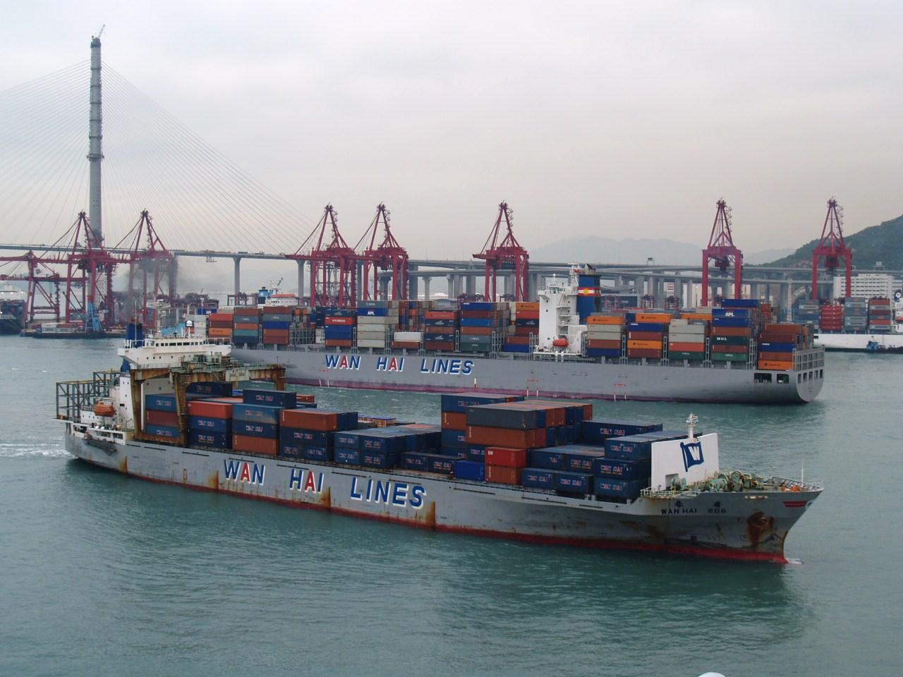 IMO number : 9002702 Name of ship : WAN HAI 206 Call Sign : S6EN8 Gross tonnage : 17136 Type of ship : Container Ship Year of build : 1991 Flag : Singapore Status of ship : In Service